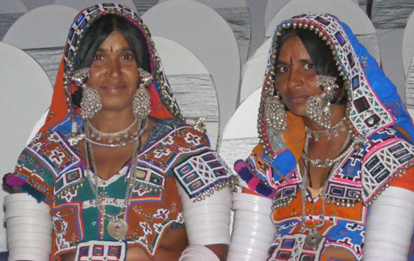 Banjara Lamadi or Lambani women in traditional dress Andhra Pradesh India